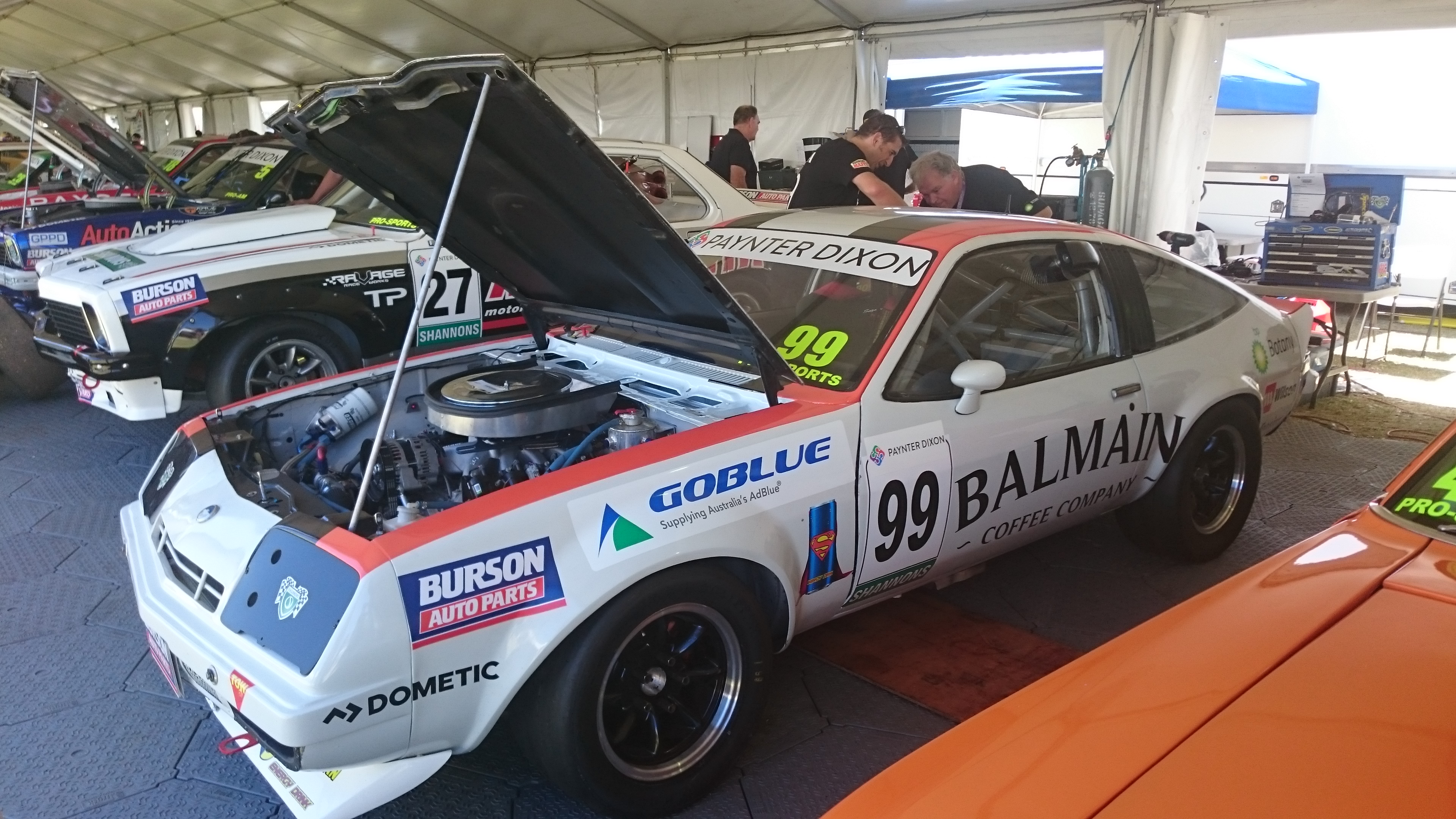 The Chevrolet Monza 2+2 of Ben Dunn at the opening round of the 2018 Touring Car Masters, Adelaide Parklands Circuit, Adelaide, South Australia.